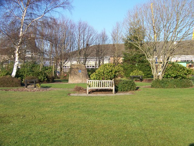 A Memorial Garden at Strathclyde Park This is erected on the site of Bothwellhaugh, a mining village which was cleared to make way for the park in the 1970s